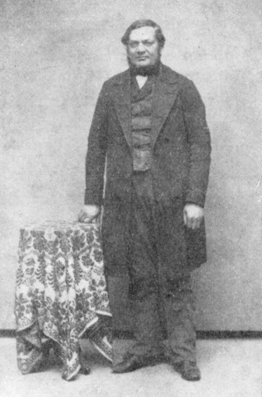 Old photograph of Jens Nicolai Jappe (1819-1884), a Danish miller who was copyholder at Ejegod Mølle, Nykøbing Faster